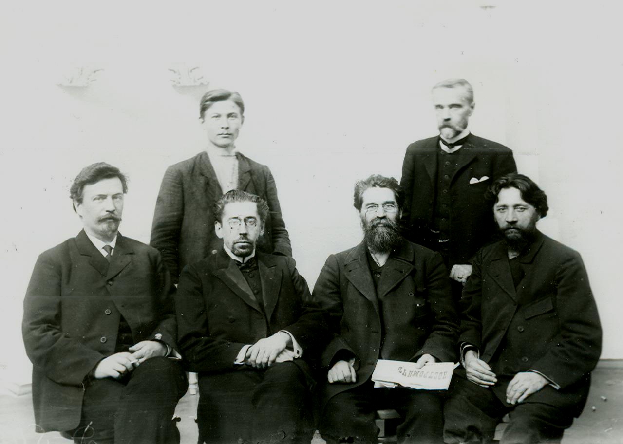 The members of the second Russian State Duma from Kostroma Governorate, 1907.